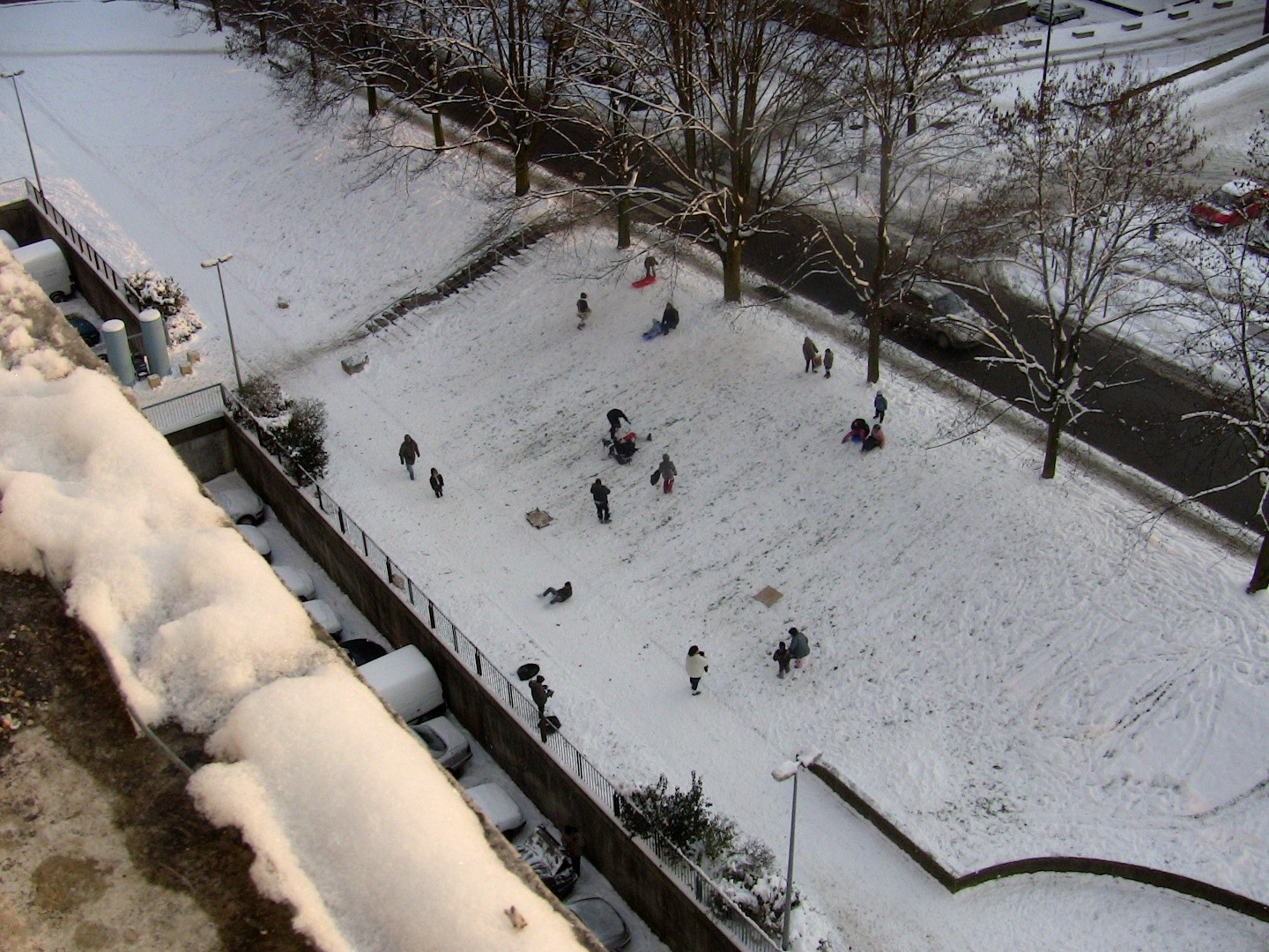 Childrens who playing with the snow, in the area of Planoise (France)